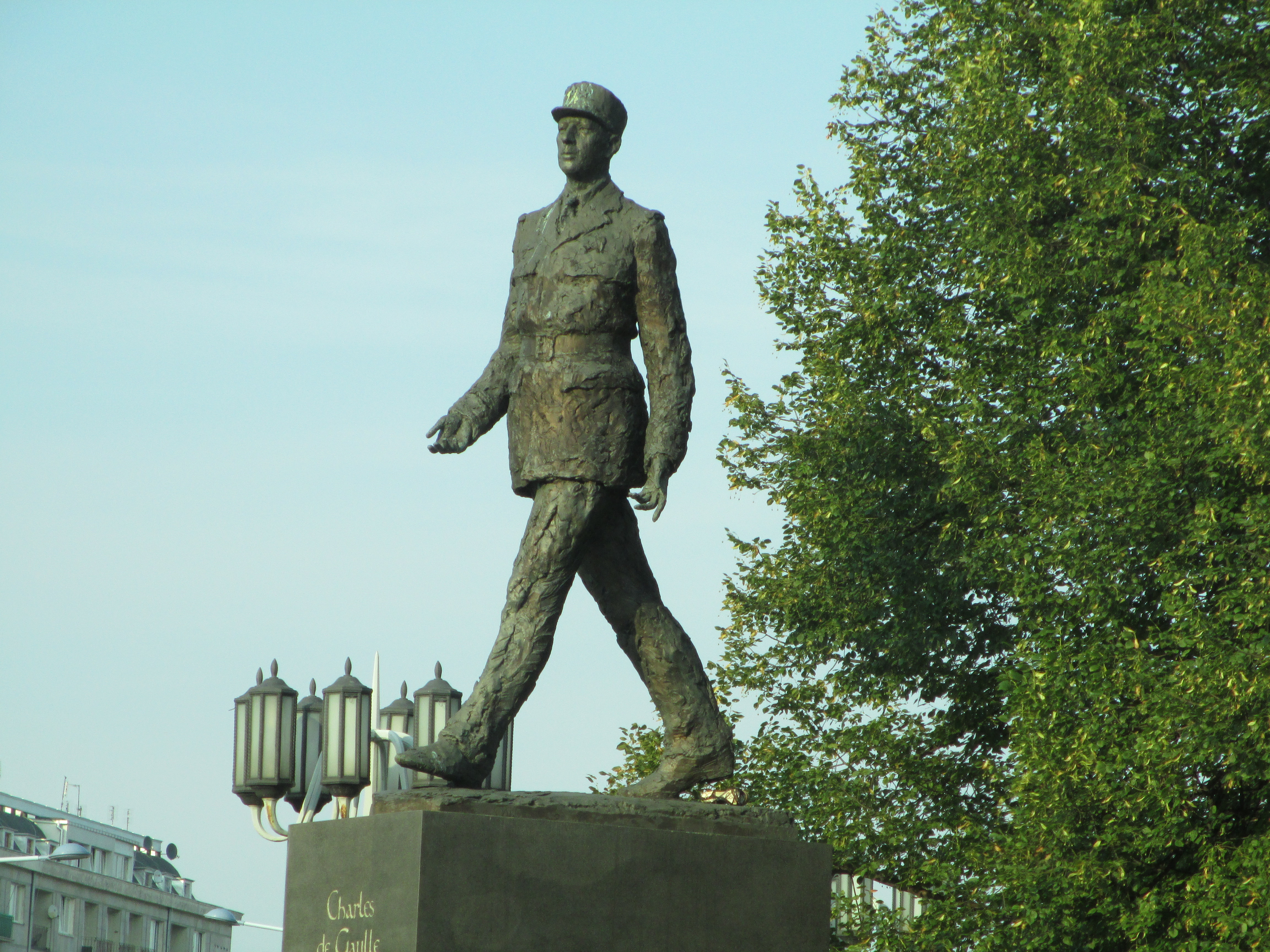 charles de gaulle monument in warsaw